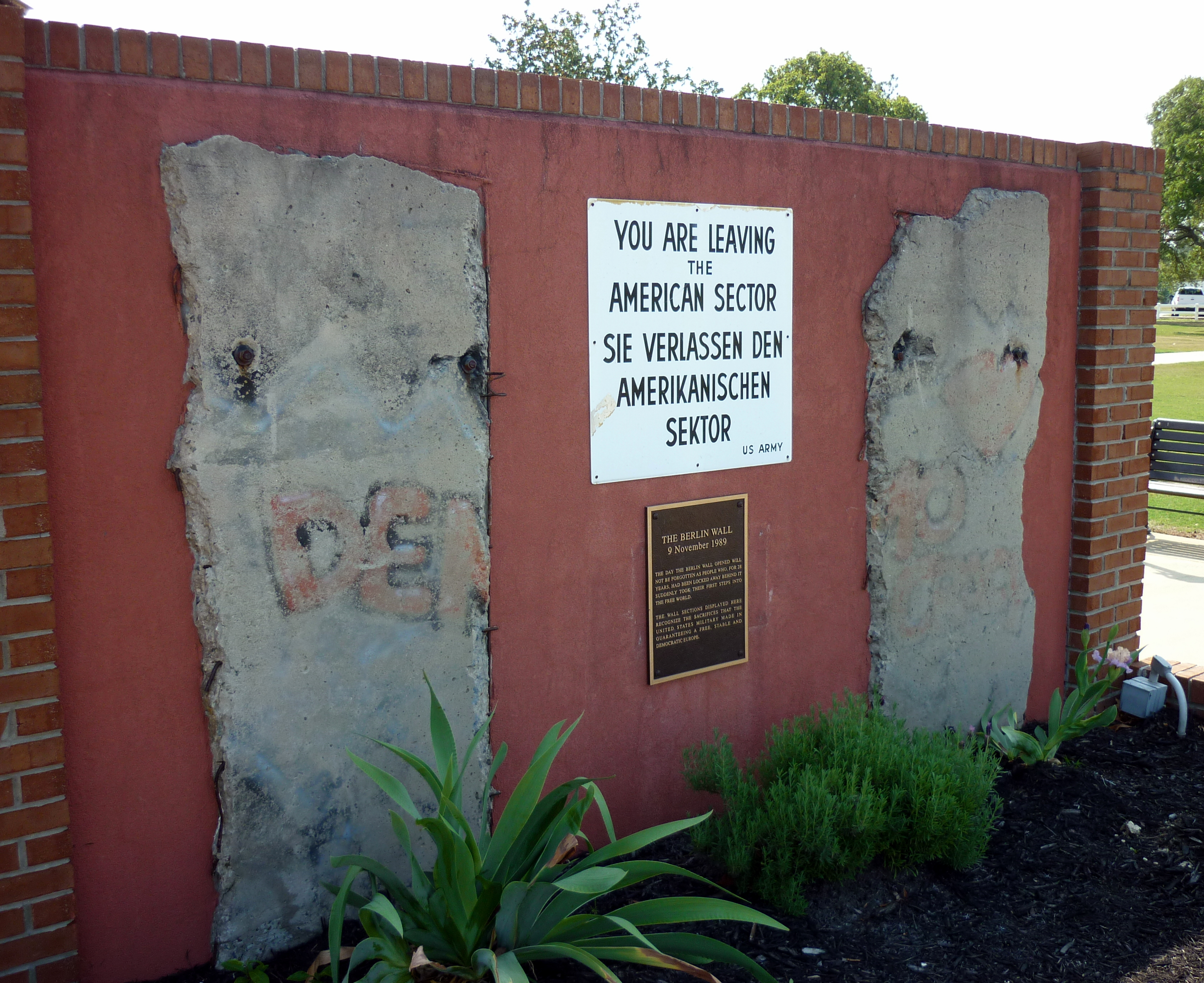 This is a display of 2 sections of the Berlin Wall, as well as a sign from the wall, that is in Freedom Park, on Fort Gordon.